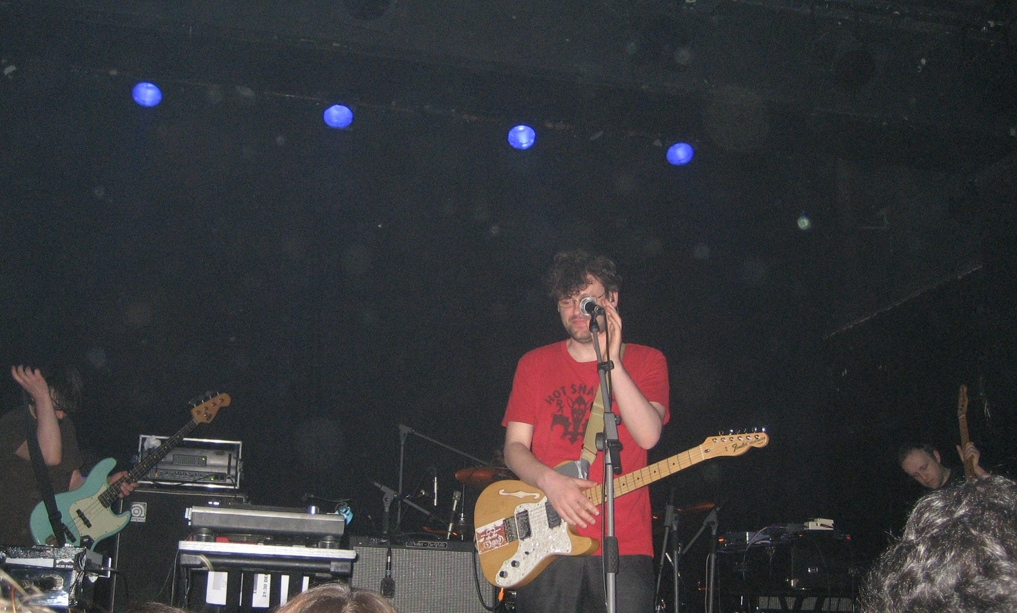 The Notwist live in Zagreb (4/26/2008 Teatar &TD)